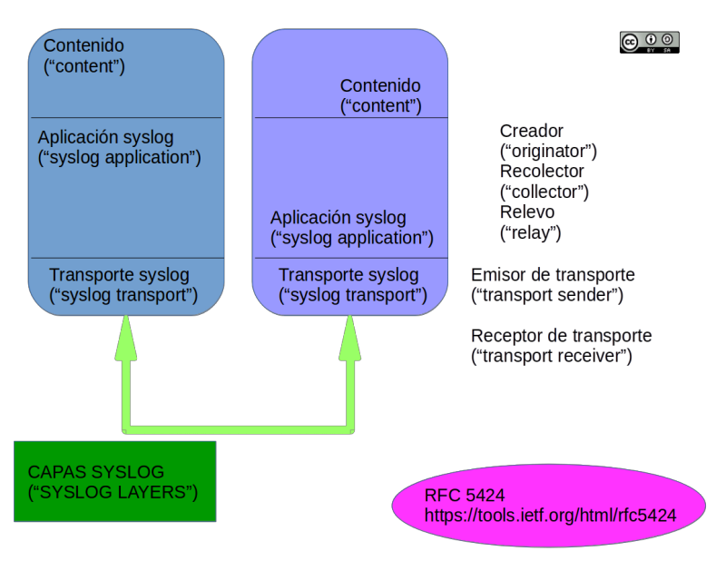 Syslog layers under RFC 5424